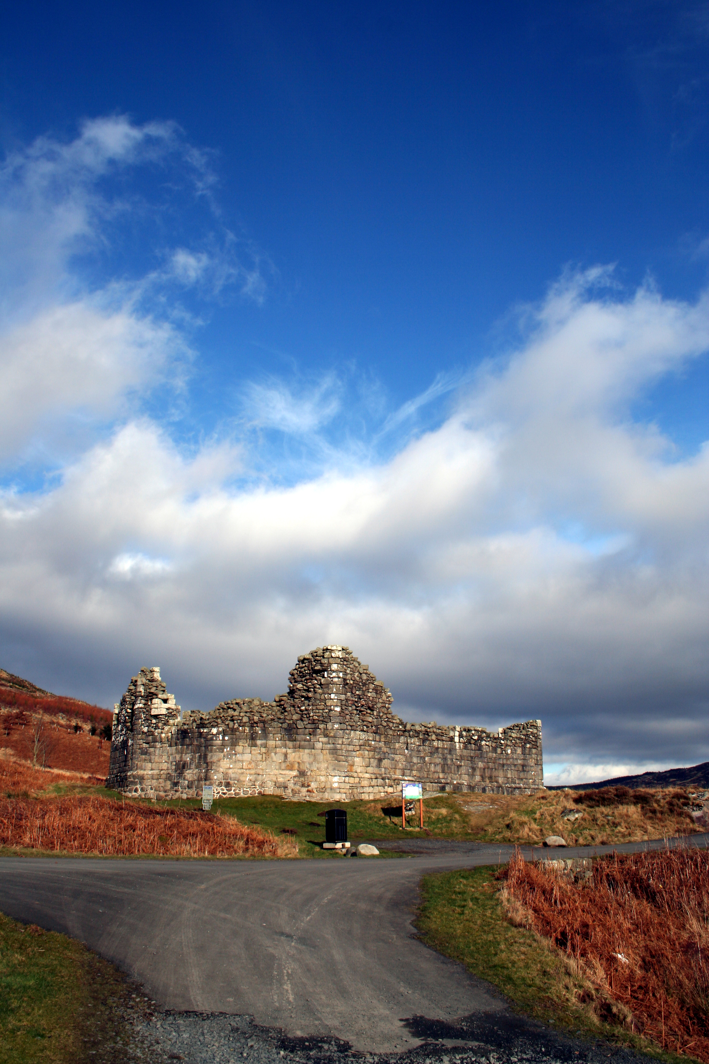 Doon Castle, relocated from an island during the damming of Loch Doon